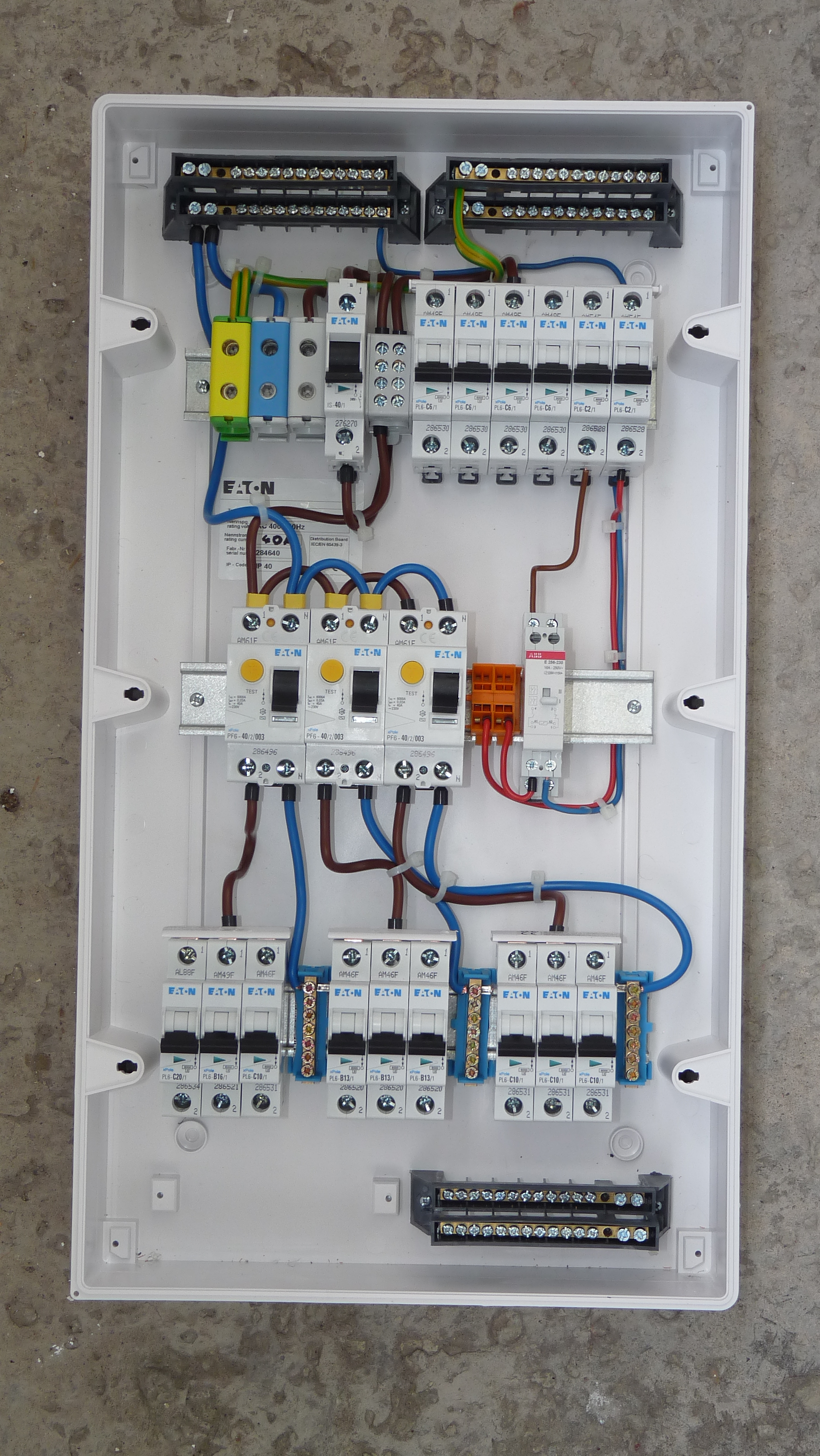 fuse box for USSR-era apartment